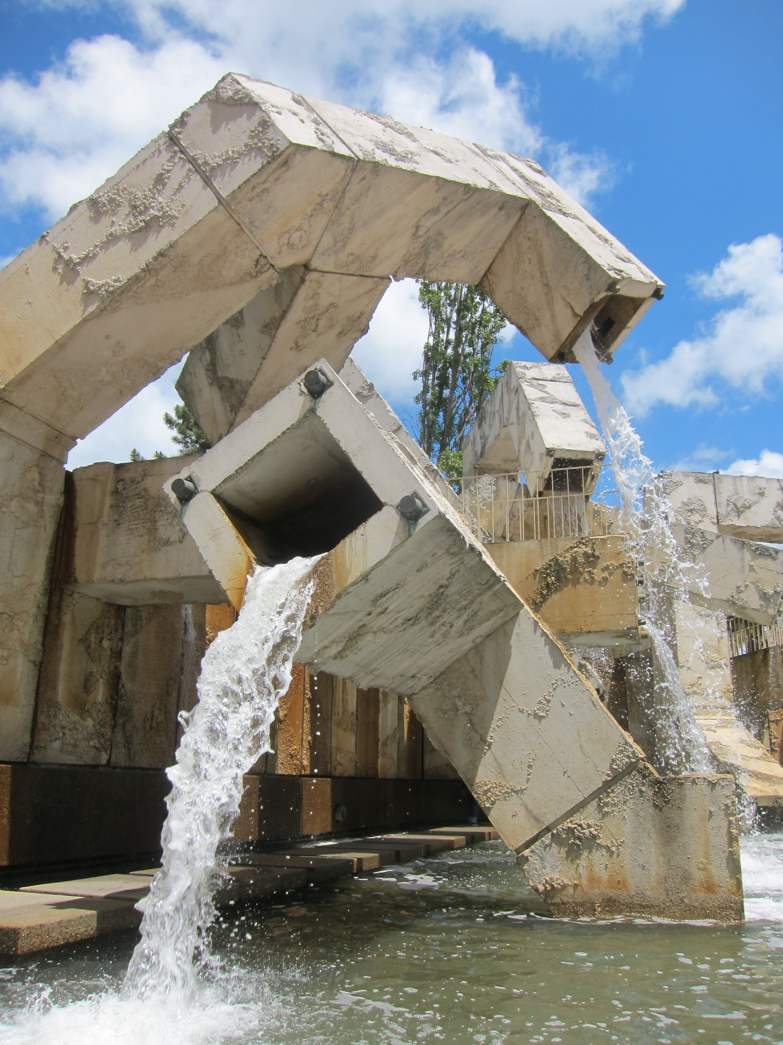 awesome public water sculpture in the Embarcadero zone of San Francisco